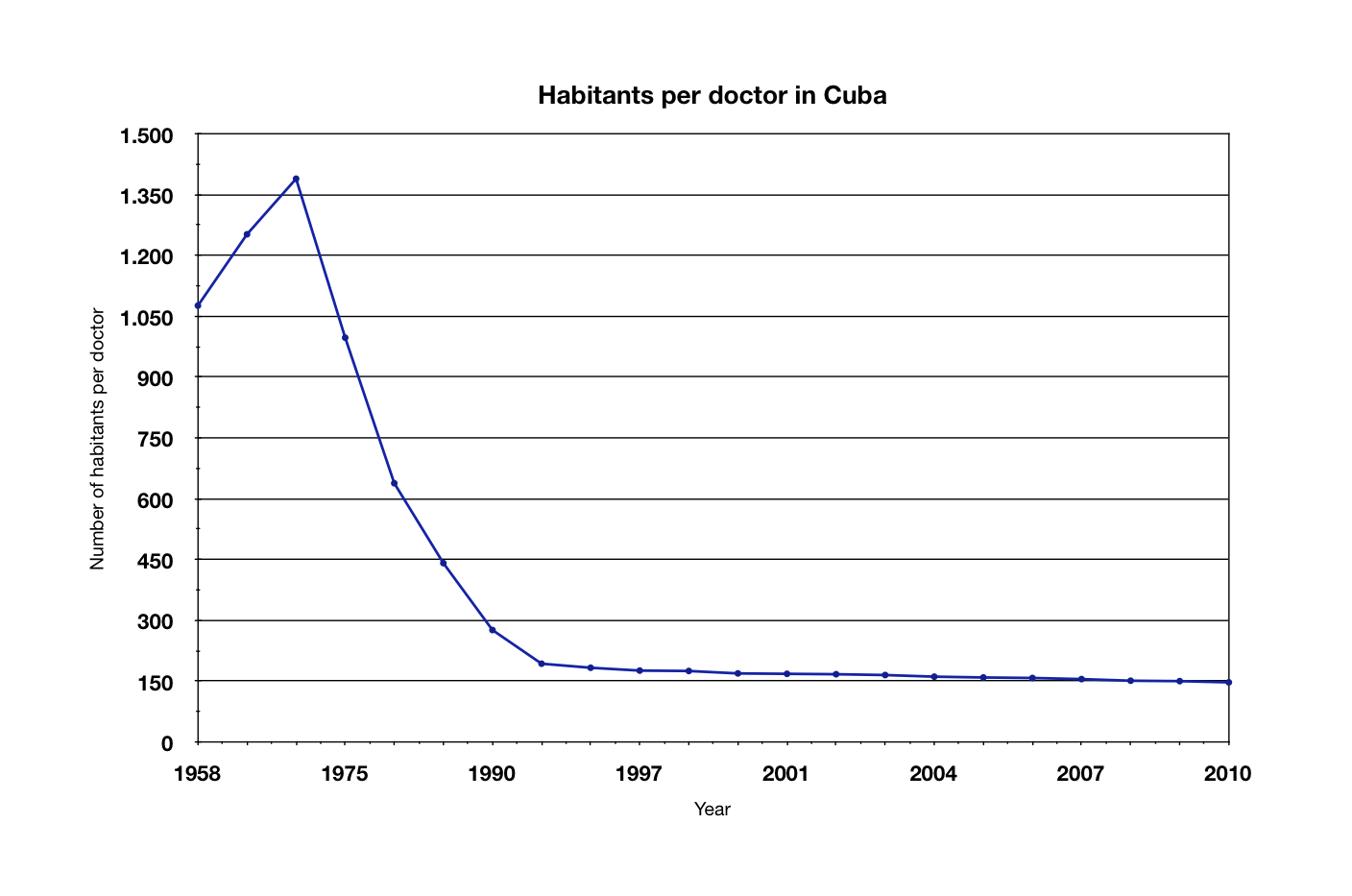 Habitants per doctor by current Cuban statistics